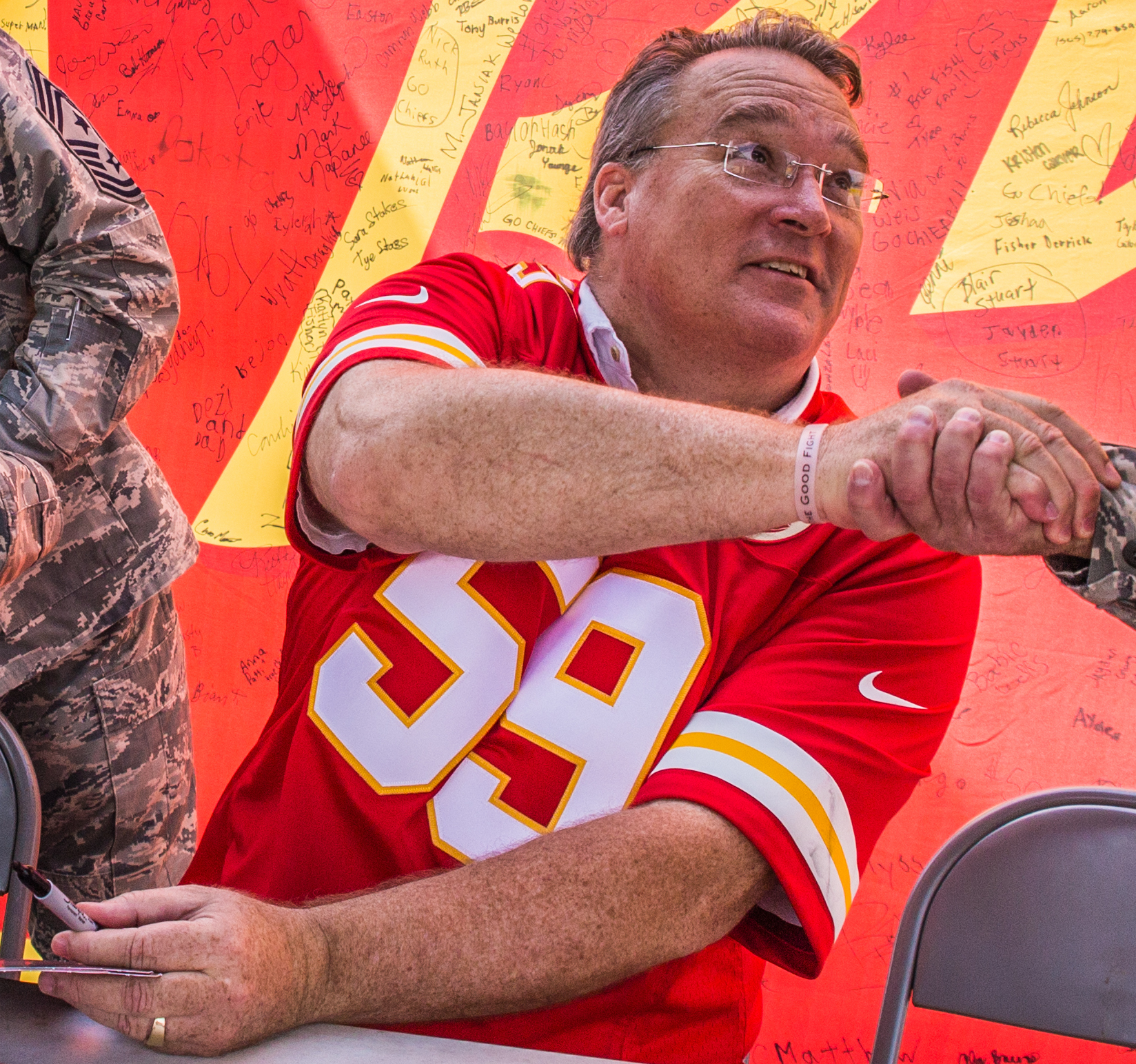 Tony Adams, retired Kansas City Chiefs NFL player (left) shakes hands with Chief Master Sgt. Harold Hutchinson, command chief master sergeant of North American Aerospace Defense Command and U.S. Northern Command, and Gary Spani, retired KC Chiefs player (second from right) shakes hands with Chief Master Sgt. Randy Miller, command chief master sergeant of the 139th Airlift Wing, Missouri Air National Guard, during a visit to Rosecrans Air National Guard Base in St. Joseph, Mo., August 15, 2017. The visit was part of a McDonald’s Restaurant Heart of America Co-Op 15-stop tour for local charities. Retired Kansas City Chiefs NFL players Tony Adams and Gary Spani were in attendance as well as current cheerleaders of the team. (U.S. Air National Guard photo by Staff Sgt. Patrick Evenson)